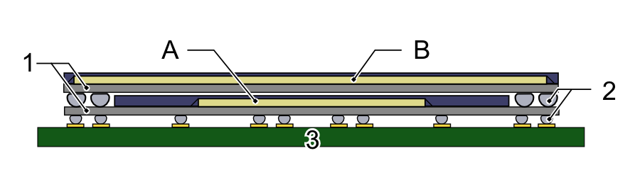 Package on Package (Side view) A:SoC B:Flash Memory 1.Substrate 2.Solder balls 3.PCB